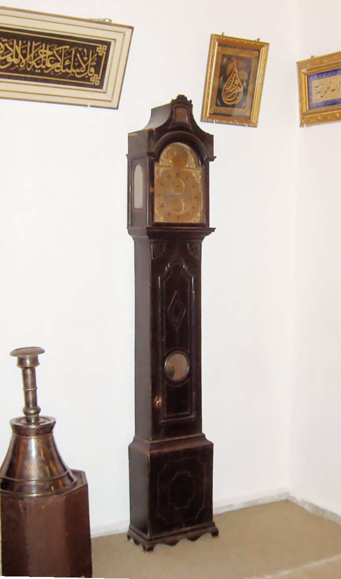 Ancient longcase clock, Mevlâna mausoleum, Konya, Turkey. Alterations: cropped source image, rotated to make clock vertical, increased brightness, removed noise using GREYCstration filter. This version doesn't preserve the original lighting of the source photo, but brings out the clock's details.